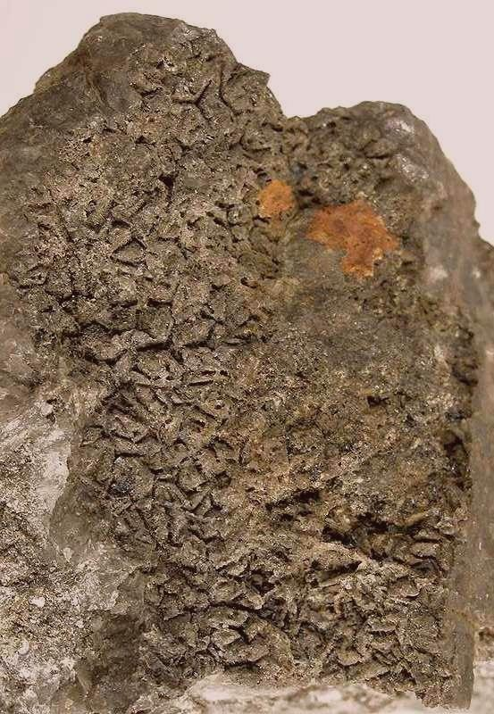 Antimony Locality: Lac Nicolet Antimony mine (Quebec Antimony mine; South Ham Antimony mine; Lac Nicolet mine), Saints-Martyrs-Canadiens, Arthabaska RCM, Centre-du-Québec, Québec, Canada (Locality at ) Size: 8.3 x 5.6 x 4.9 cm. This is a significant locality specimen from the early days of an important antimony mine, started in the late 1860's. Although it was re-opened in 1940 and later produced some fabulous crystallized antimony in larger sized crystals, this would have been of some significance for the original era of mining there, and remains so now for historic reasons and overall size of the specimen as well. One face has intricate patterning of richly crystallized antimony, in crystals to several mm in size. It is from the noted collection of William Drown, whom according to the Mineralogical Record Archive on him was an umbrella manufacturer who used his fortune to amass a collection of some 6000 mineral specimens. His collection was kept by his family for a generation after his death and then donated in 1918. Ex. Academy of Natural Sciences Philadelphia Collection.